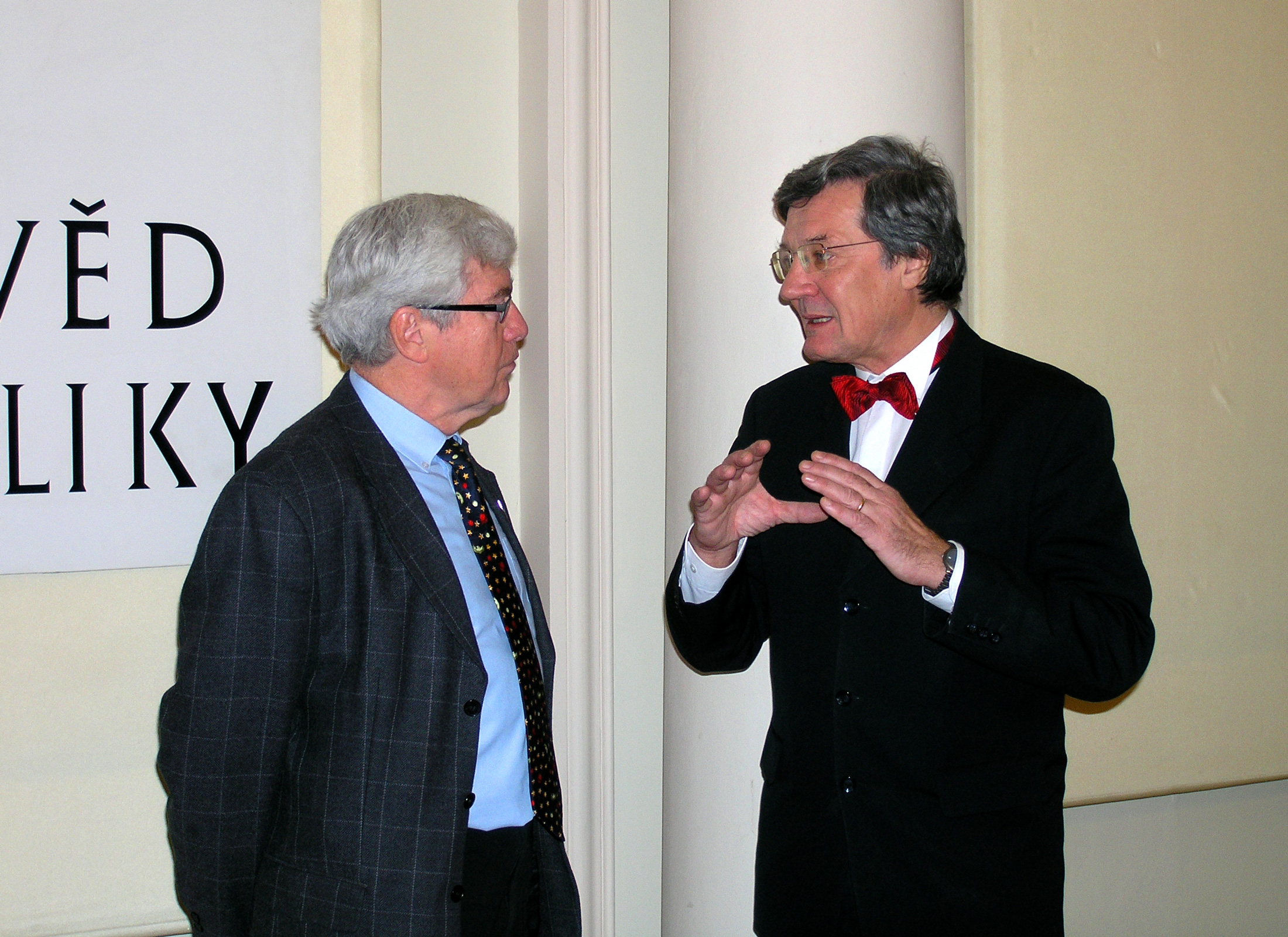 Press conference to the launch of the International Year of Astronomy in Prague. Jiří Grygar, chairman of the Czech National Node, on the left and Jan Palouš, chairman of the Czech National Committee for Astronomy, on the right.